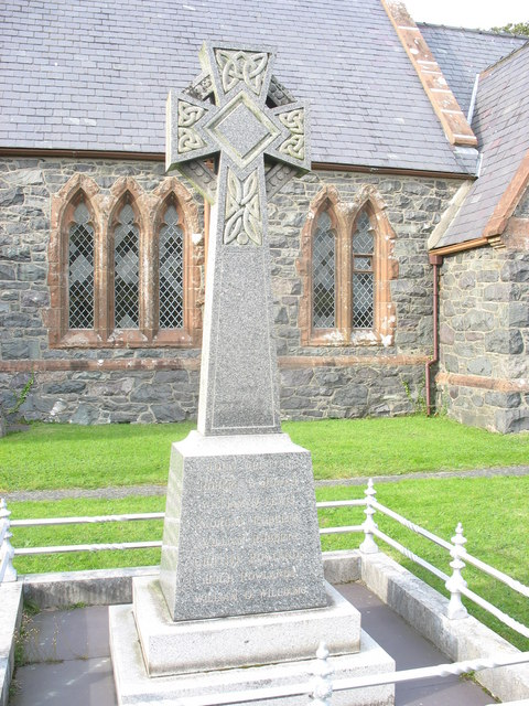 Parish war memorial in St Helen's parish churchyard, Penisa'r Waun, Gwynedd, Wales